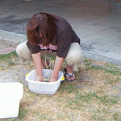 Soaking materials ready for basket weaving at the May meeting for Cherokees of Orange County, CA.